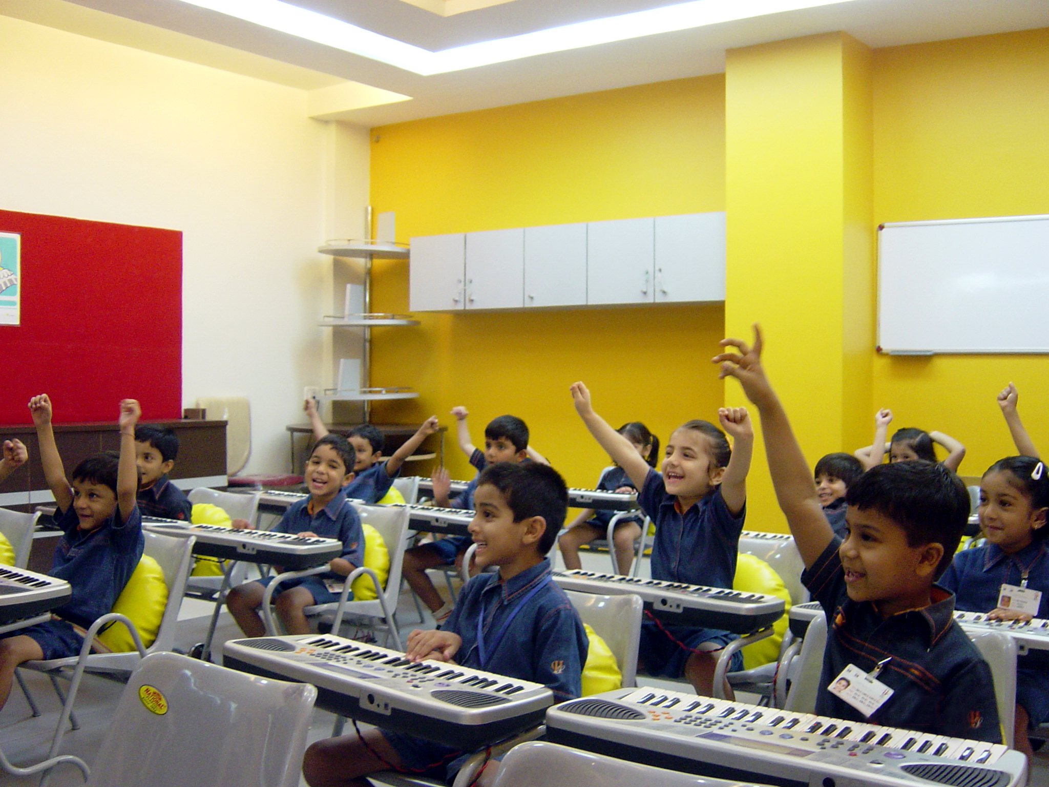 A batch of children learning in a classroom of the Boss School of Music (Tardeo, Mumbai, India)